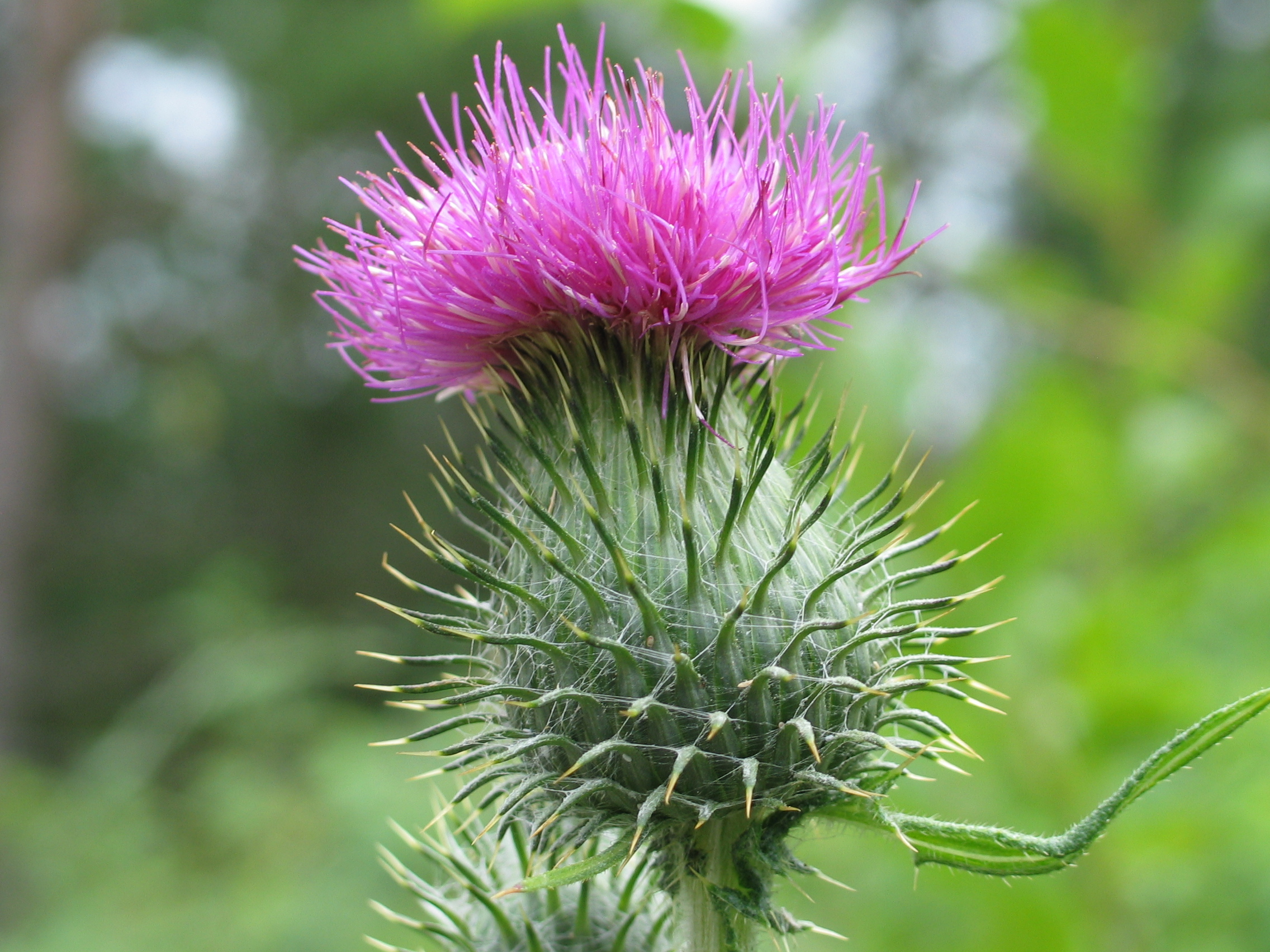 Thistle, photo taken in Sweden